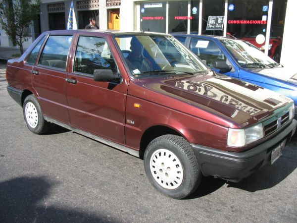 Photo taken by me in Qawra, June 2006.